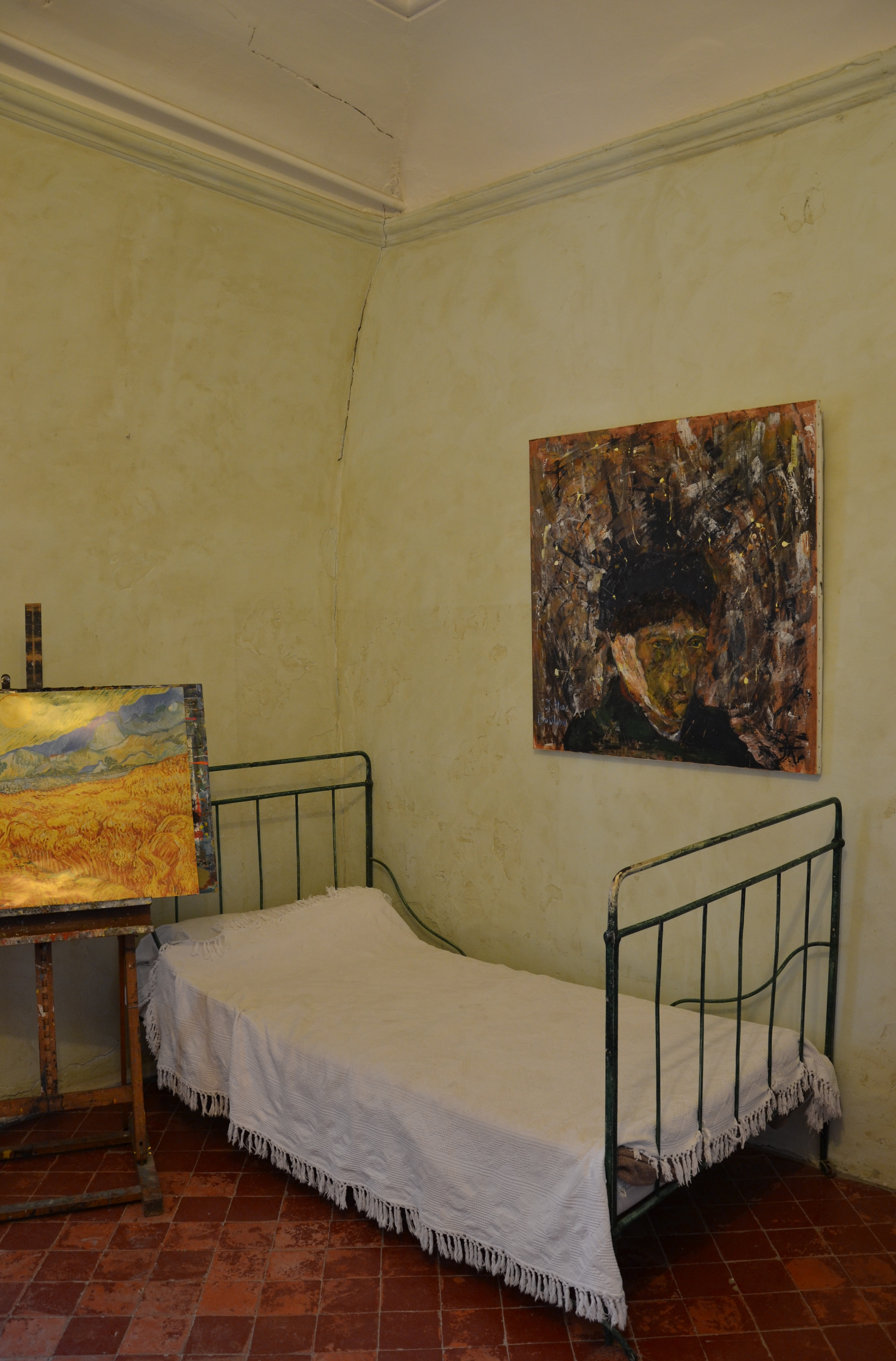 Vincent Van Gogh room at Saint-Remy-de-Provence